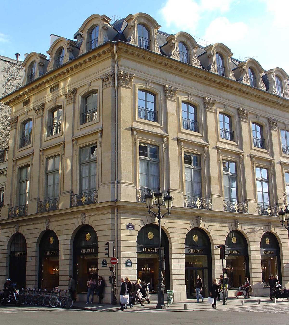 Charvet store, 28 place Vendôme ; 37 rue Danielle-Casanova, Paris. Hôtel Gaillard de la Bouëxière